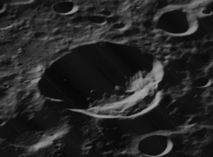 Oblique view of Lacchini, on the far side of the moon, facing west.